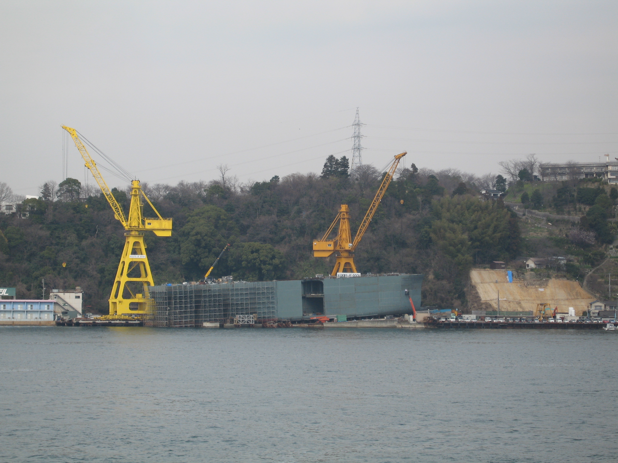 2nd factory of Kegoya Dock Co., Ltd. which is a shipbuilding company in Japan.